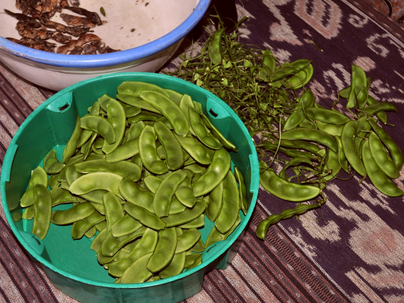 Young pods of Java bean Phaseolus lunatus, prepared for cooking. From Darmaga, Bogor, West Java, Indonesia.